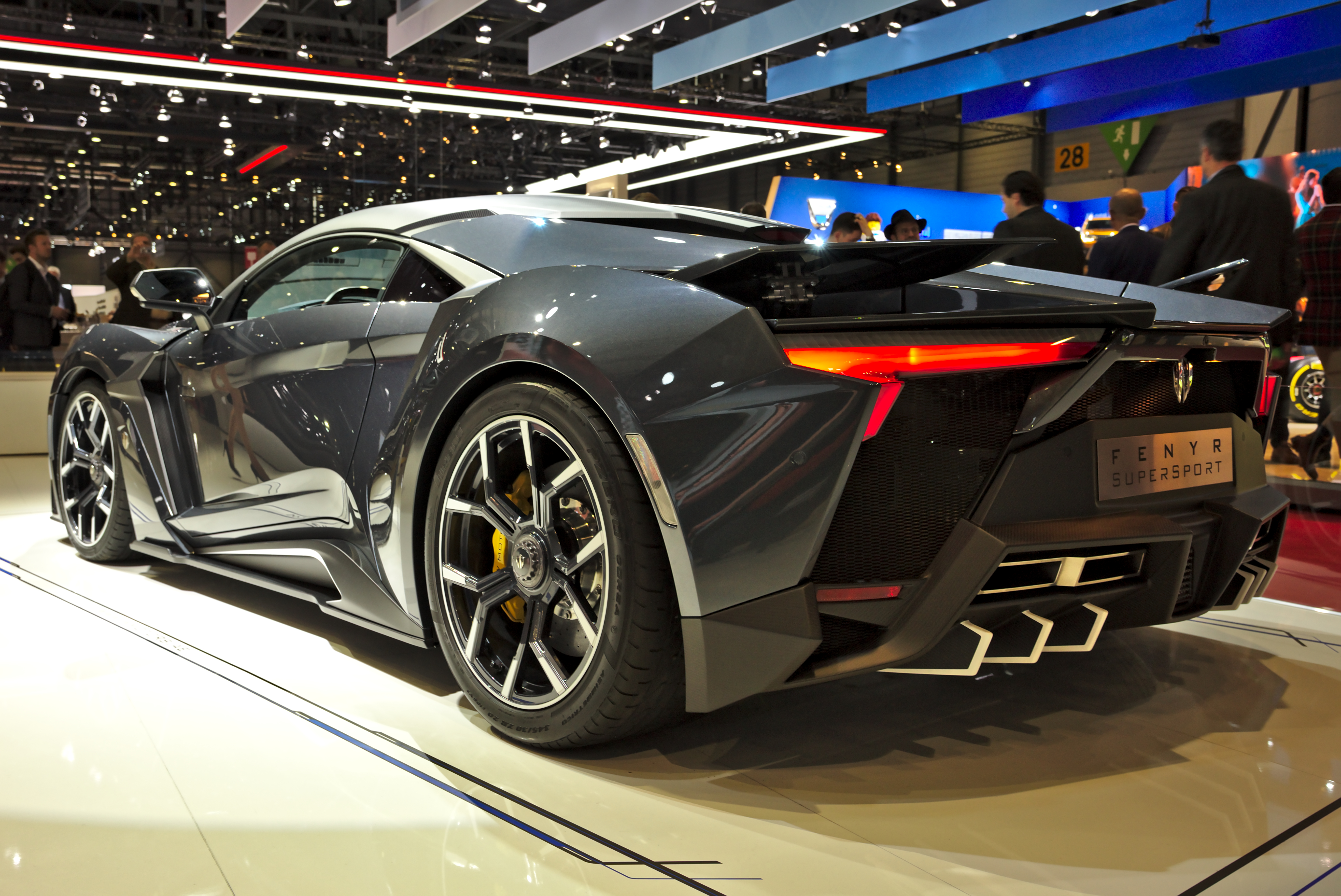 W Motors Fenyr Supersport at Geneva Motorshow 2018